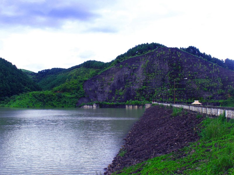 Singda-The place where the highest mud dam in India is built